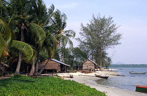 Beach in Ream National Park